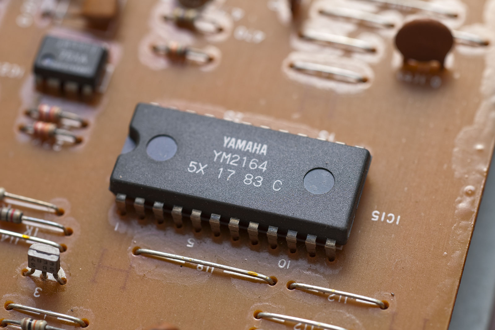 YAMAHA YM2164 FM sound generator chip on DX100 mainboard